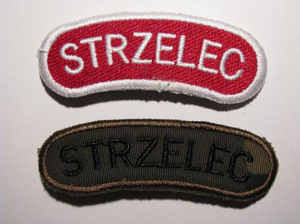 Patches used by the ZS Strzelec OSW Polish paramilitary group